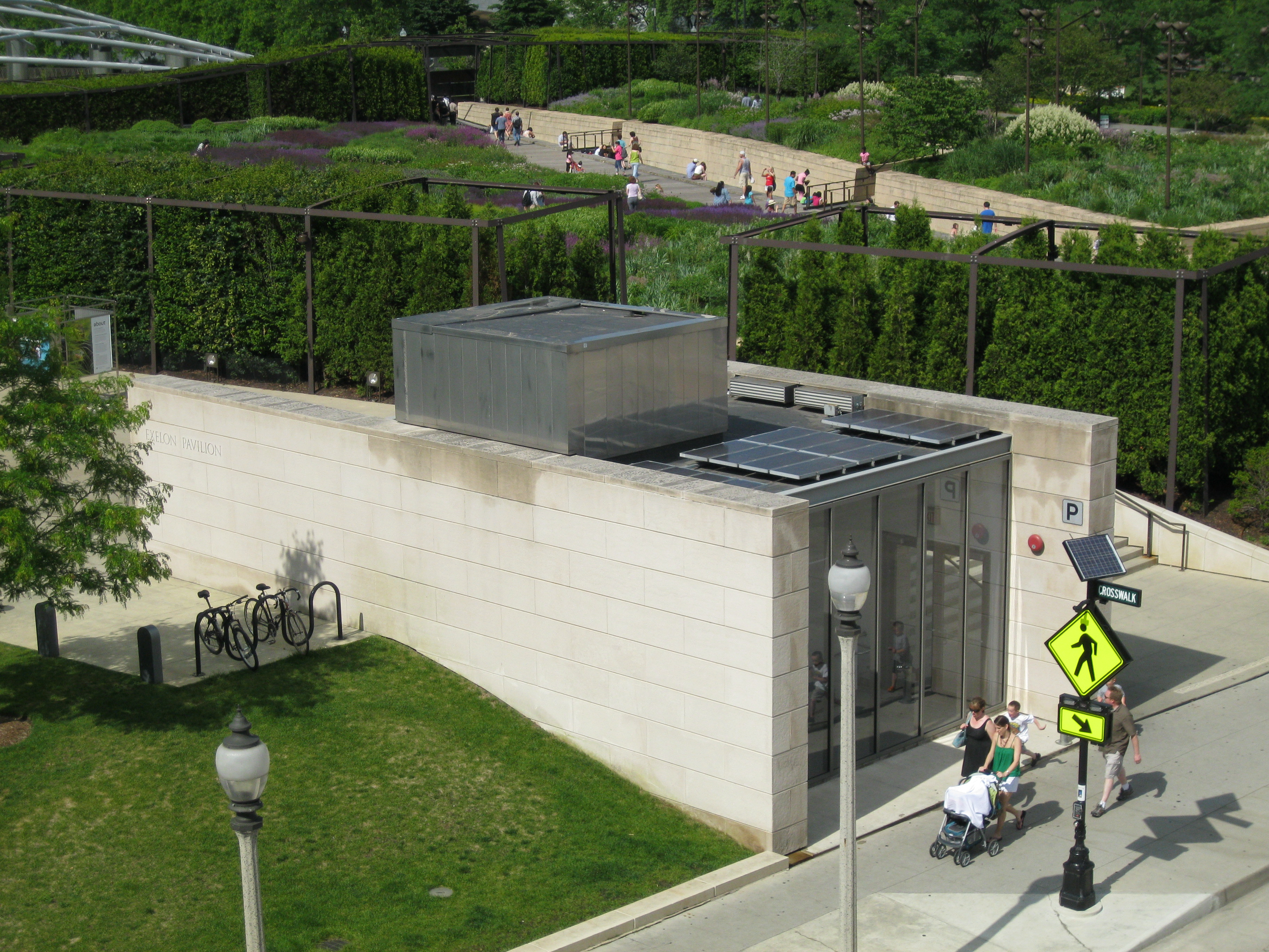 Southwest Exelon Pavilion in Millennium Park, Chicago, Illinois, USA (as seen from the Nichols Bridgeway)